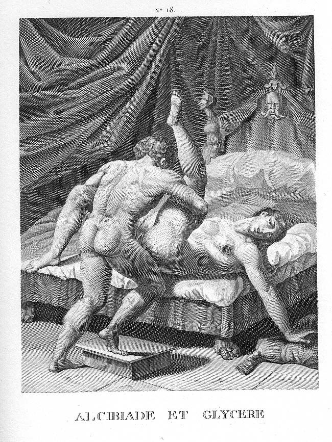 Nominally Alcibiades and the courtesan Glycera. (This is in fact an anachronism, since Glycera lived in the Hellenistic period 200 years after Alcibiades's time.)